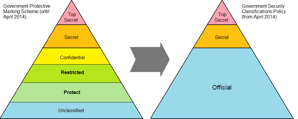 Transition from the old Government Protective Marking Scheme to the new Government Security Classifications Policy in 2014. The criteria for classifications are being adjusted too, so there is not always a perfect map from layer to layer.